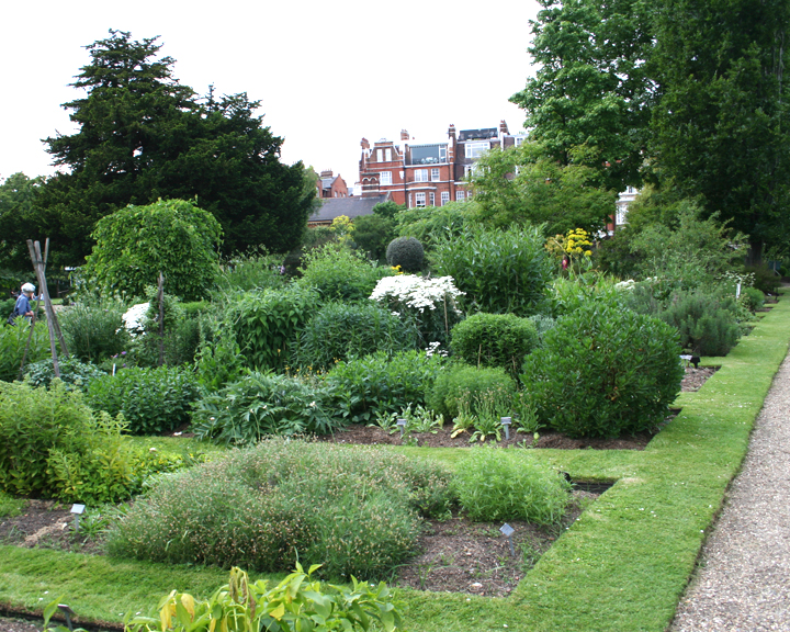 Colour photograph showing the Chelsea Physic Garden